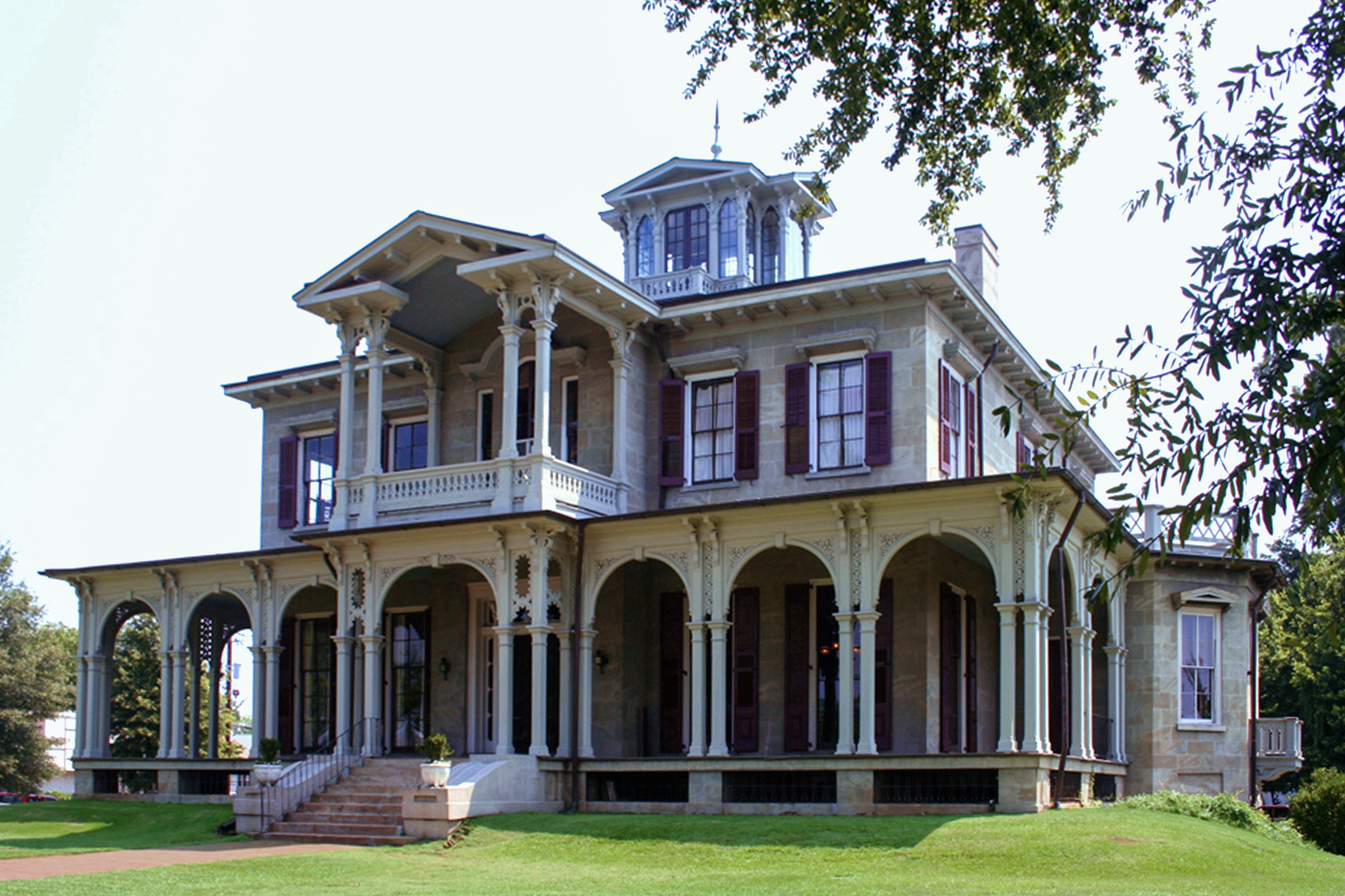 Front facade of the Jemison-Van de Graaff Mansion in Tuscaloosa, Tuscaloosa County, Alabama, United States. Listed on the National Register of Historic Places.